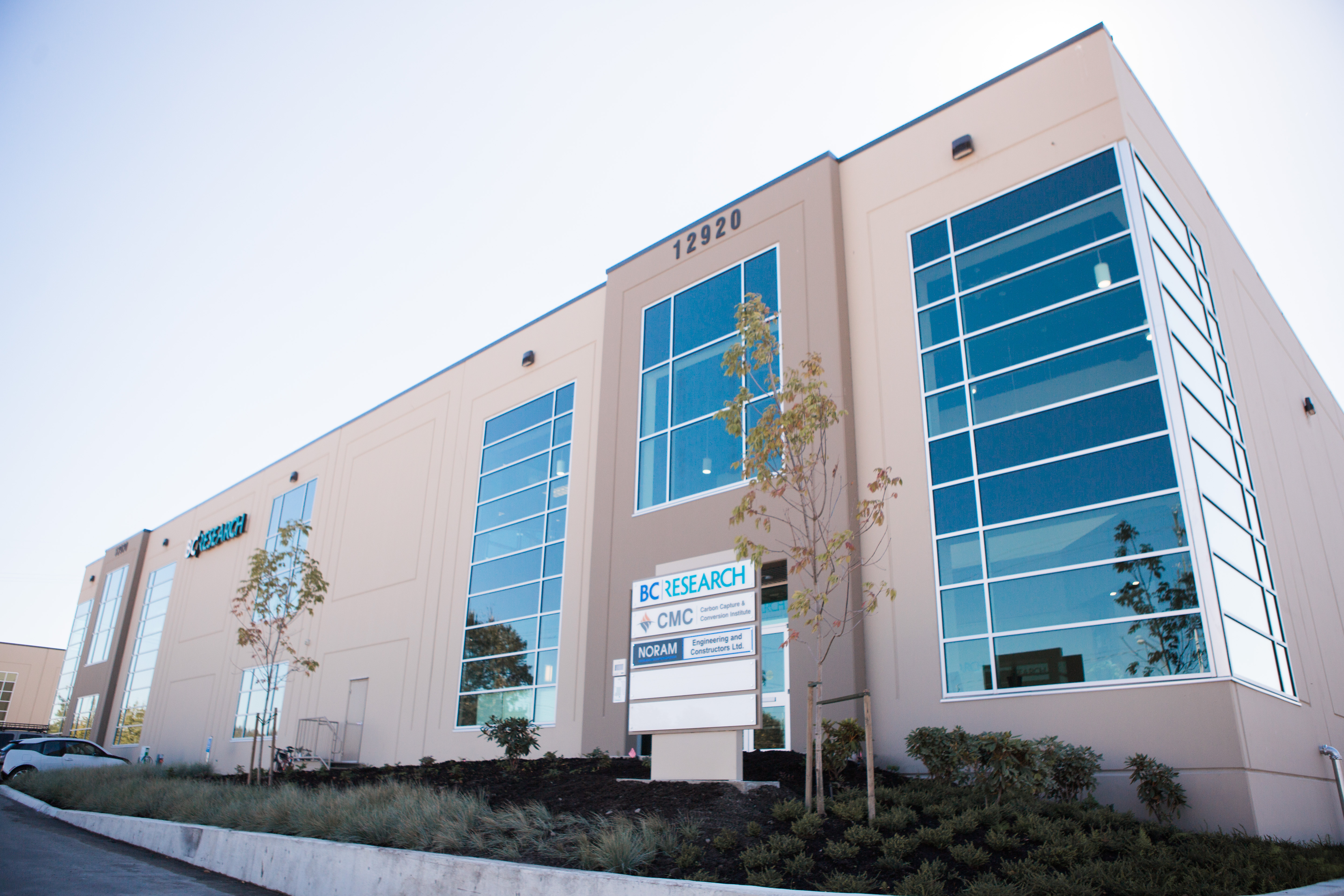 BCRI Technology Commercialization and Innovation Centre